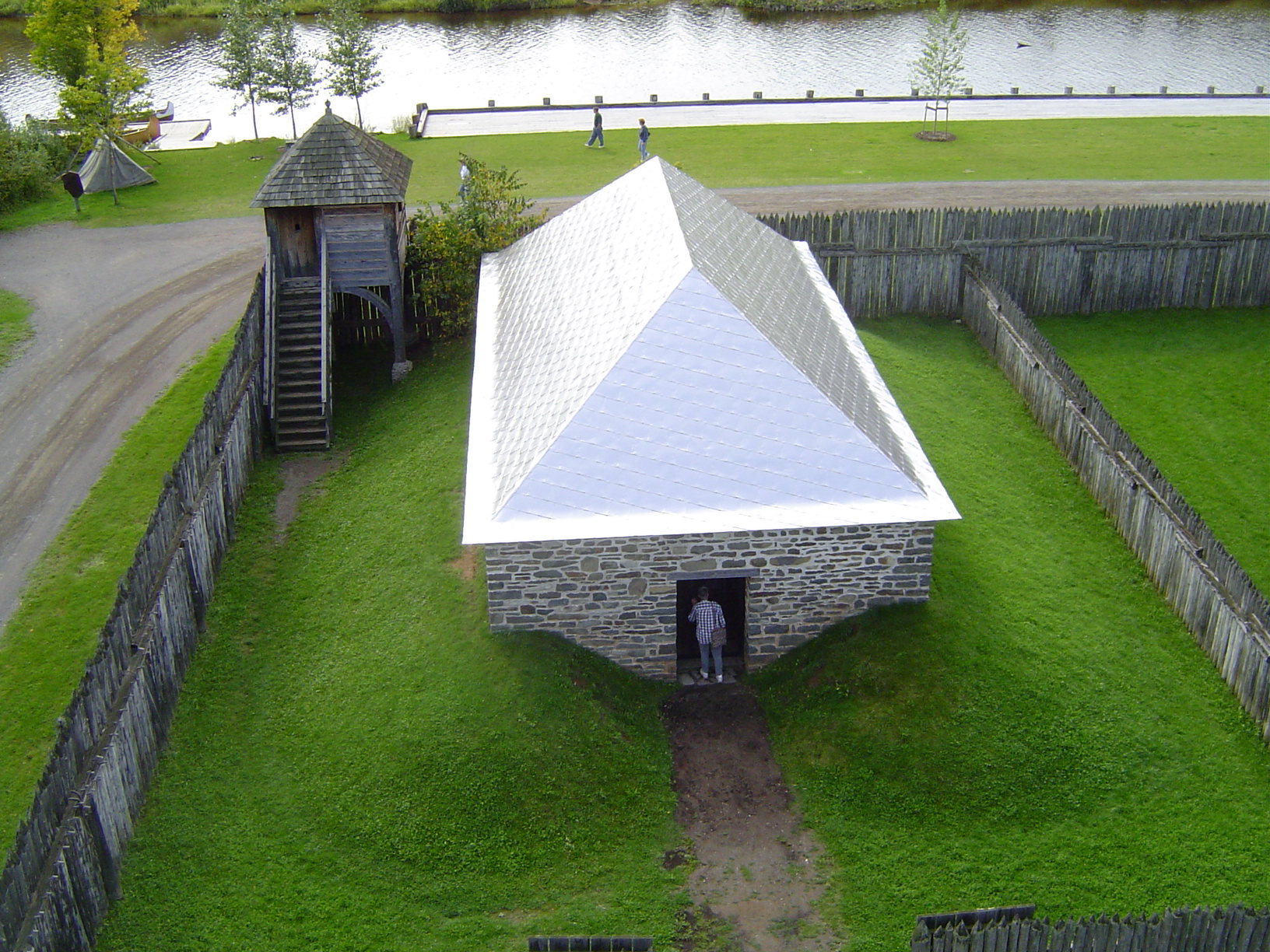 Powder Magazine for storage of gunpowder and firearms.